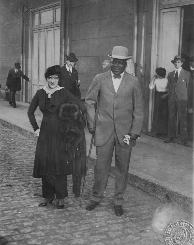 US Boxer, Jack Johnson at Buenos Aires, Argentina 1914. (for his fight aganist Boxer Jack Murray (US) result: Win, (KO) on December 15, 1914. Archivo General de la Nación Argentina 1914 Inventario 356459.